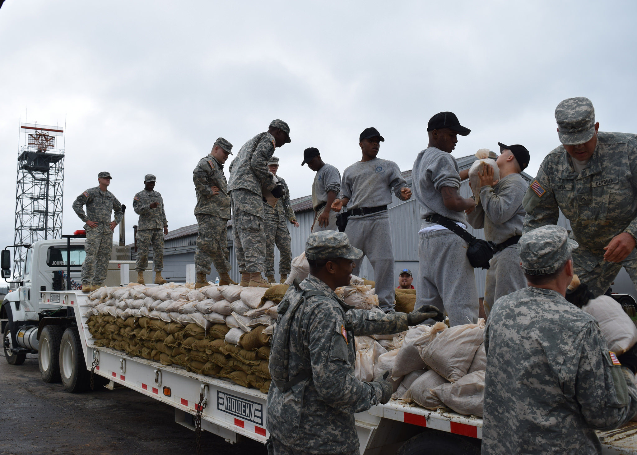 Georgia Army National Guard Soldiers fill sand bags in anticipation of possible flooding. At the request of the Georgia Emergency Management Agency, more than 200 Guardsmen, State Defense Force Volunteers and Youth Challenge Academy Graduates filled 8,000 sand bags for use in Georgia and South Carolina. (Georgia National Guard photo by Capt. William Carraway / released)